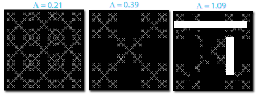 Illustration of lacunarity as rotational invariance to accompany unrotated figure; generated using author's free open source software for analyzable rather than artistic fractal images available at